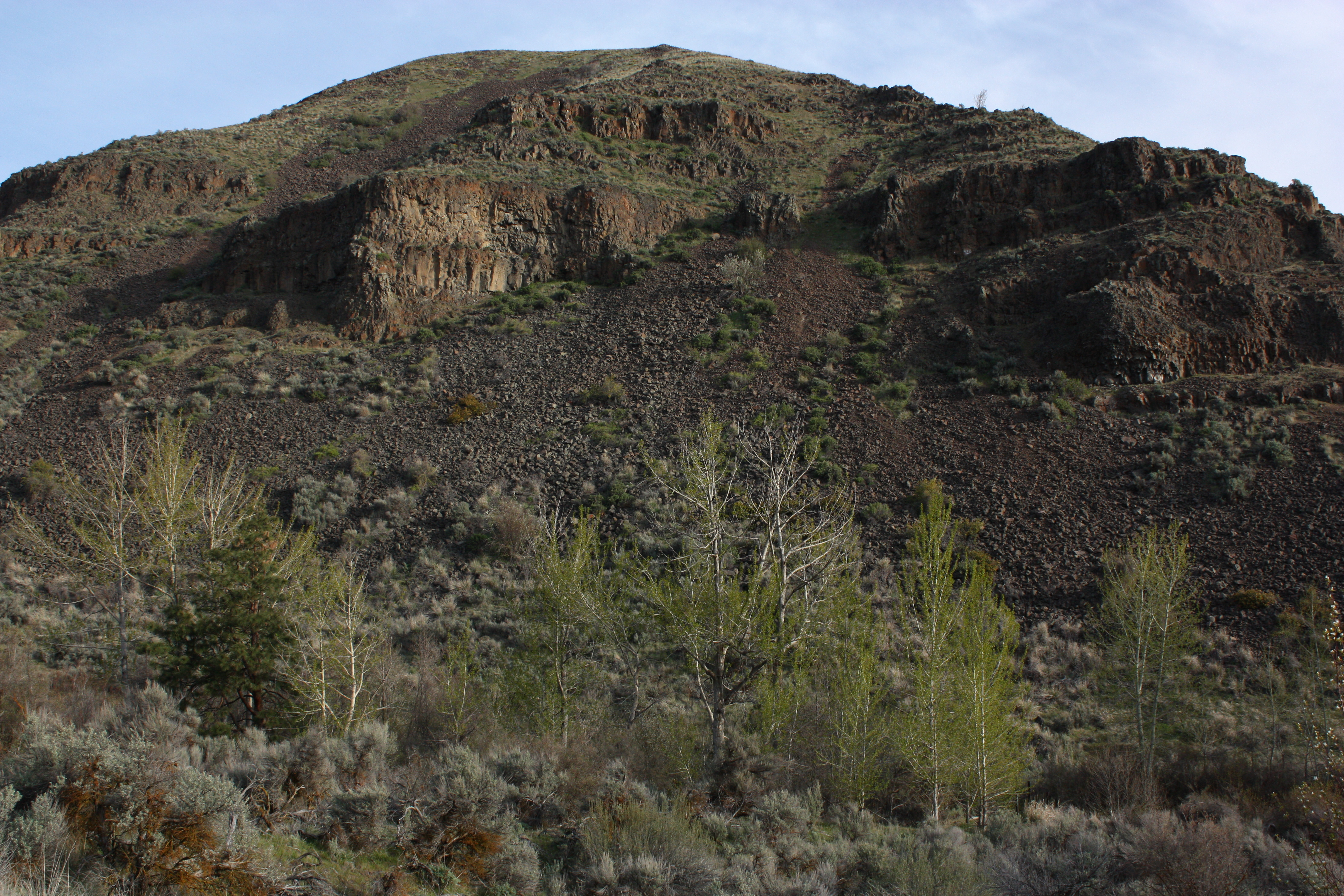 Umtanum Creek Recreation Area with Populus trichocarpa, Artemisia tridentata, and other species; Columbia River Basalt Group, Grande Ronde Basalt (middle Miocene), 16.9 Ma to 15.6 Ma; upper flows of normal magnetic polarity (MvgN2)